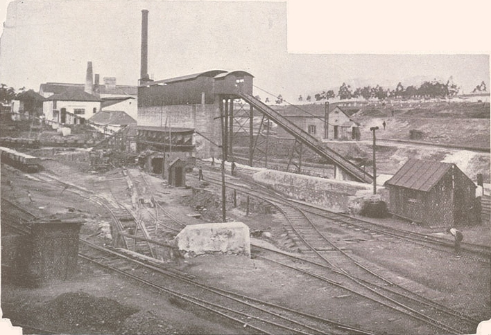 New mine elevator at the São Domingos Mines, on the Mértola municipality, in Portugal. This image was published on the Ilustração Portuguesa magazine No. 245, of the 13th April 1914, and scanned by the Hemeroteca Municipal de Lisboa.